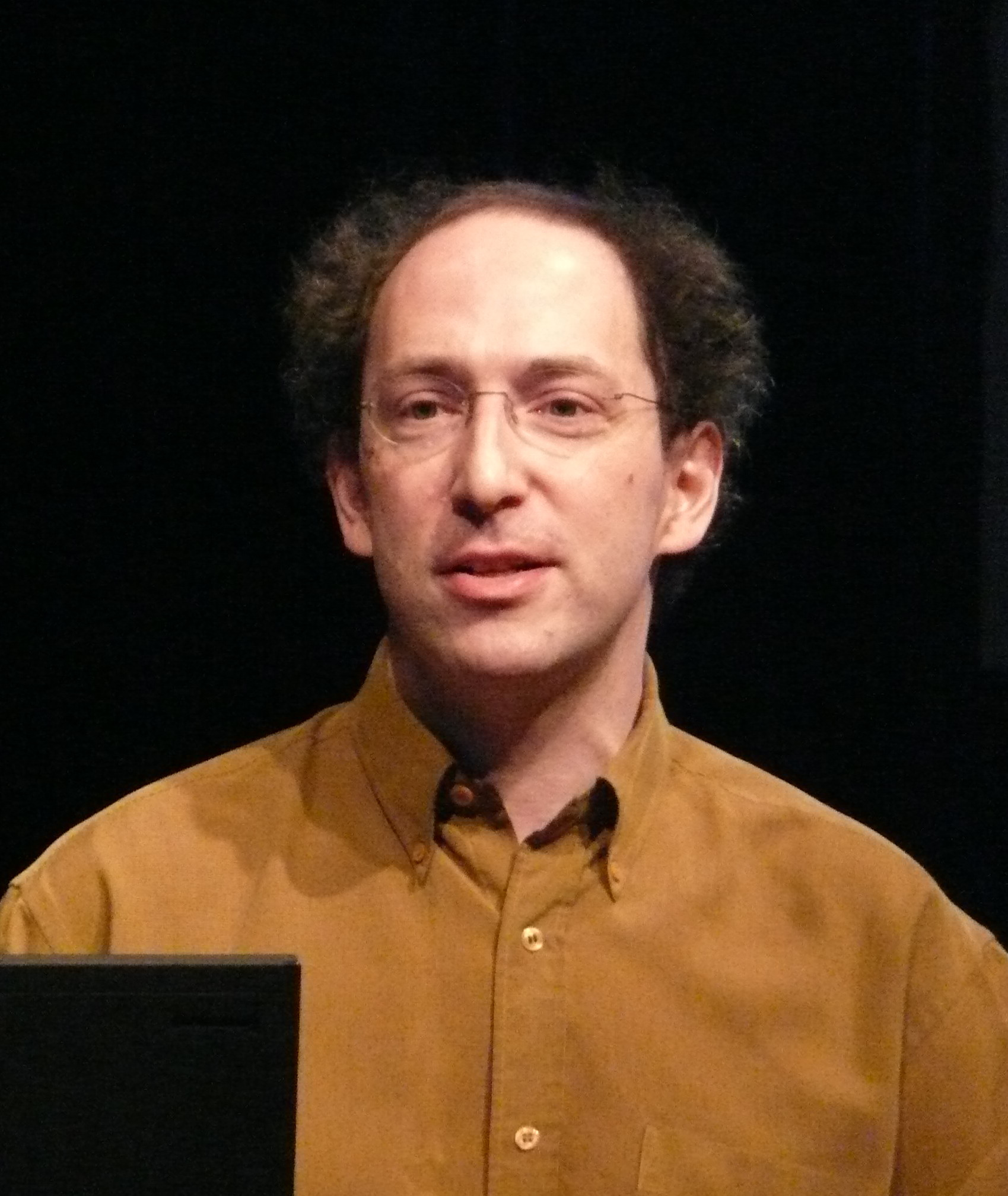 Conrad Wolfram in transmediale 10.